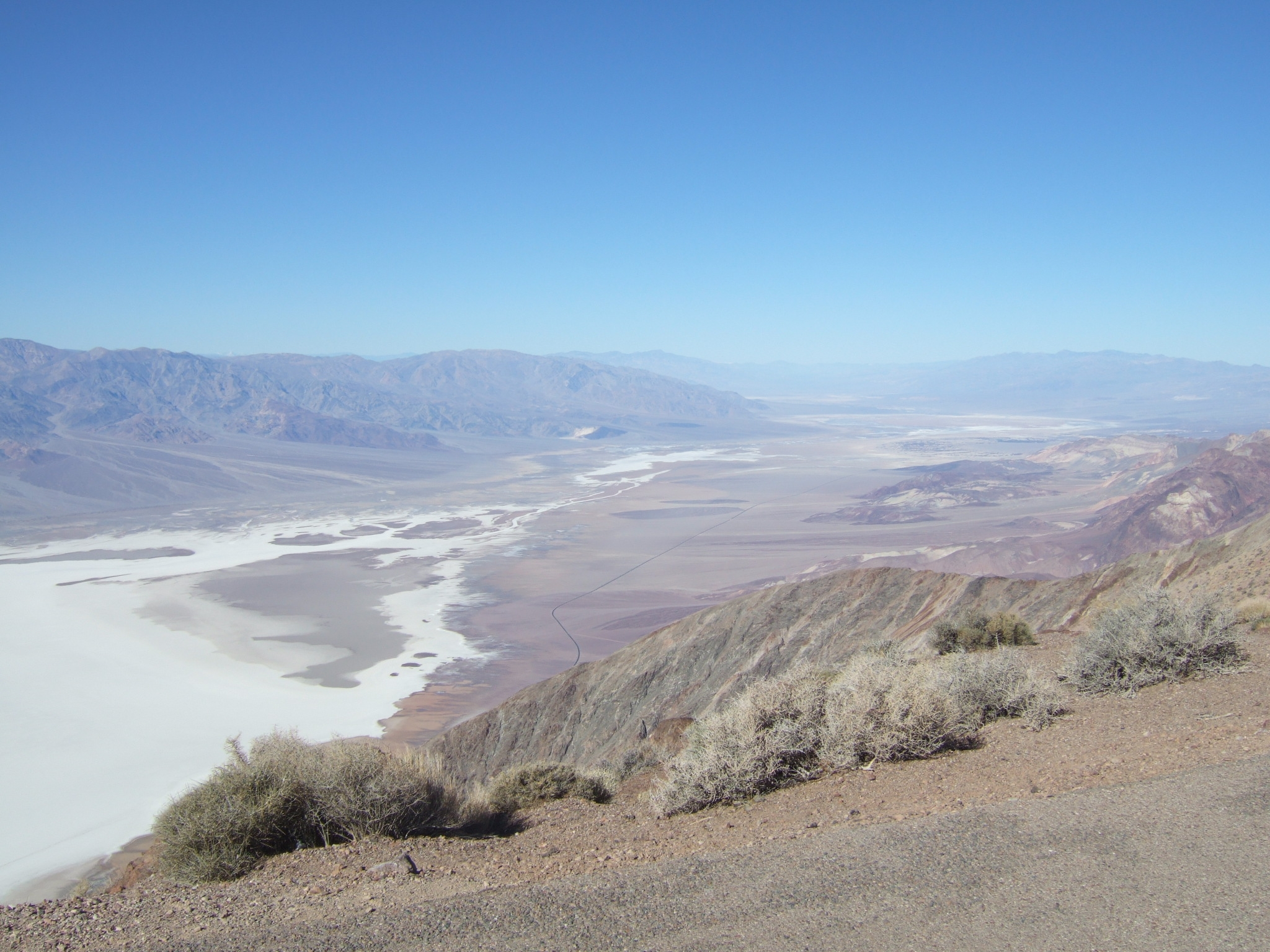 Dantes View im Death Valley, USA